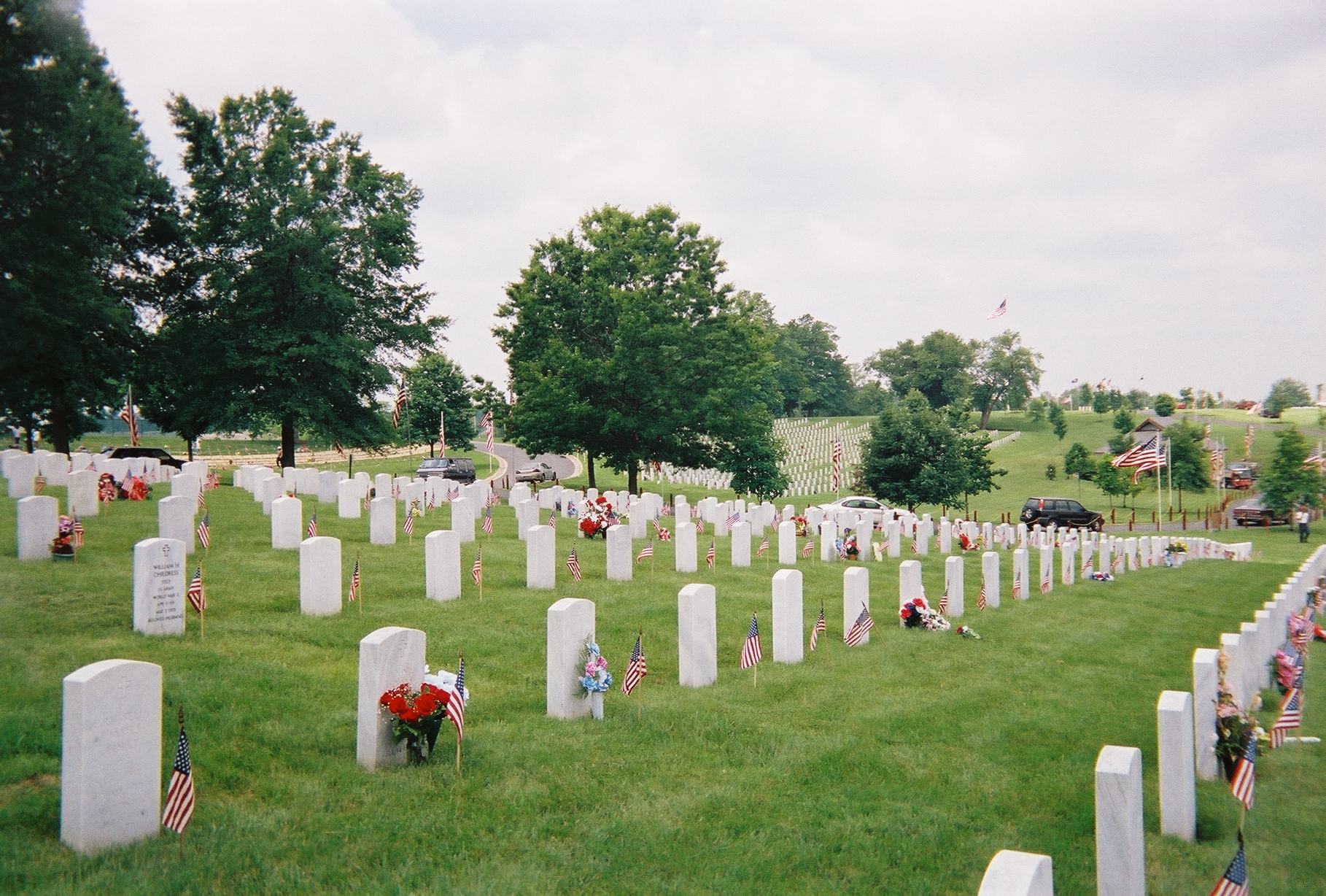 Camp Nelson National Cemetery, in Nicholasville, Kentucky, on Memorial Day 2003.